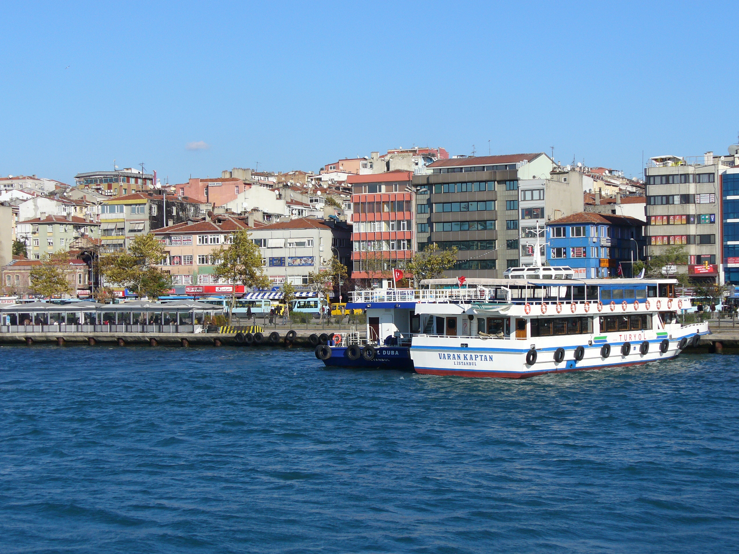 A view of the harbour in Kadıköy, İstanbul, taken from a ferry in the sea of Marmara.